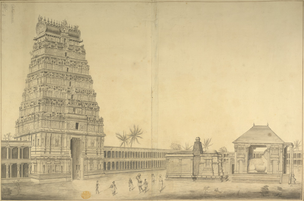 "View of the Pagoda of Chelimbaram [Chidambaram"]